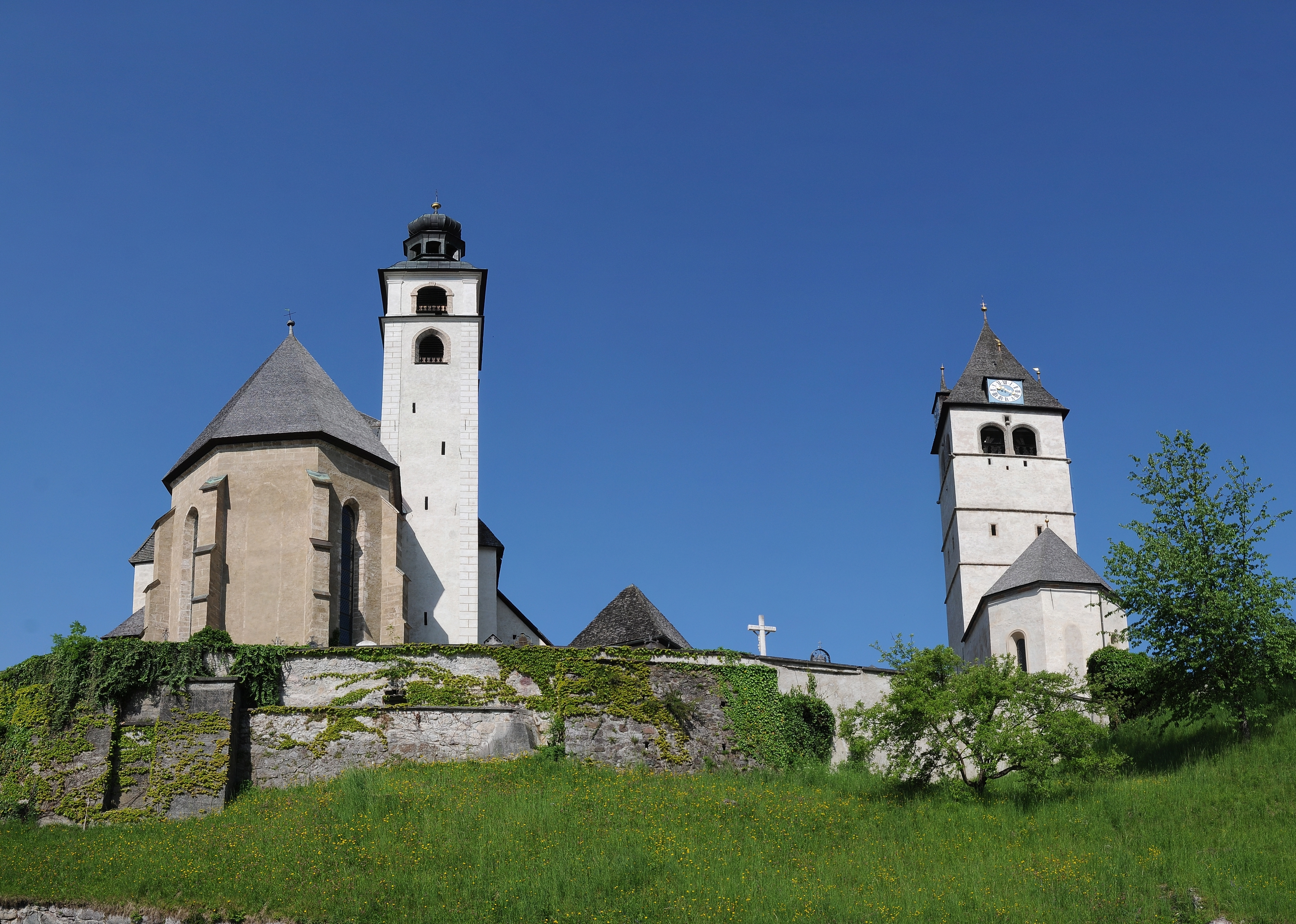 Kitzbühel, west side of Josef-Pirchl-Straße with St Andrew's Parish Church and Church of Our Lady (from l. to r.).